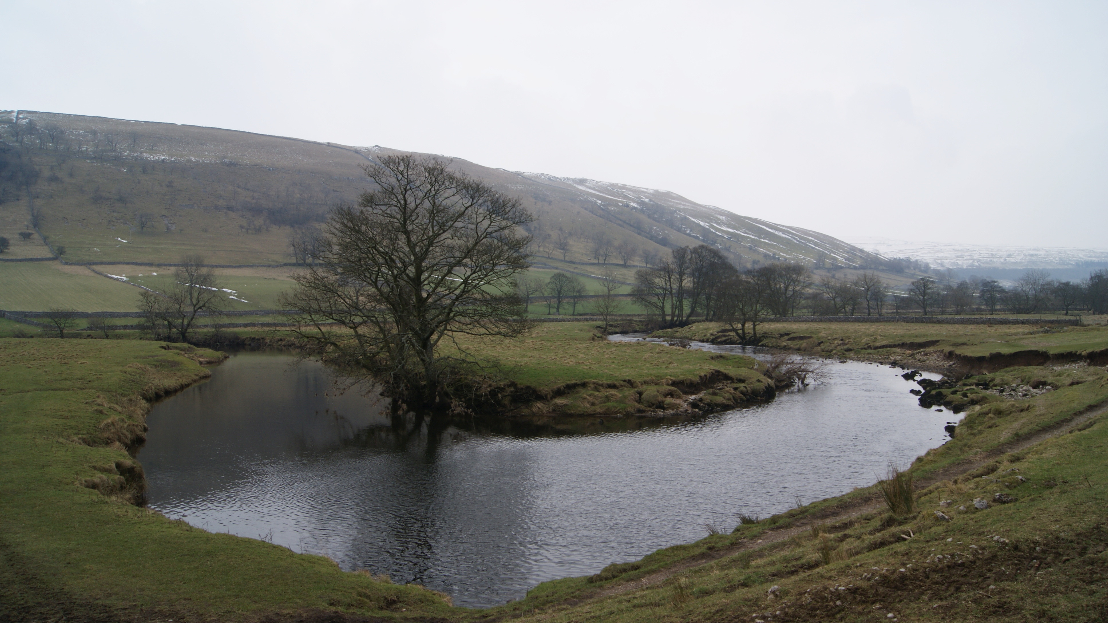 Meander on the River Wharfe by the Dales Way between Kettlewell and Starbotton (heading North), Wharfedale, North Yorkshire. Taken Midday, Tuesday the 12th of February 2013.